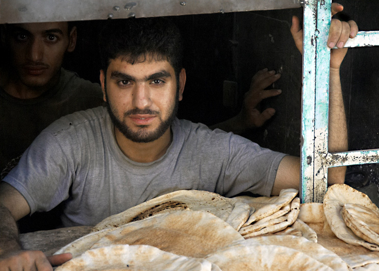 Bread souk, Damascus, Syria